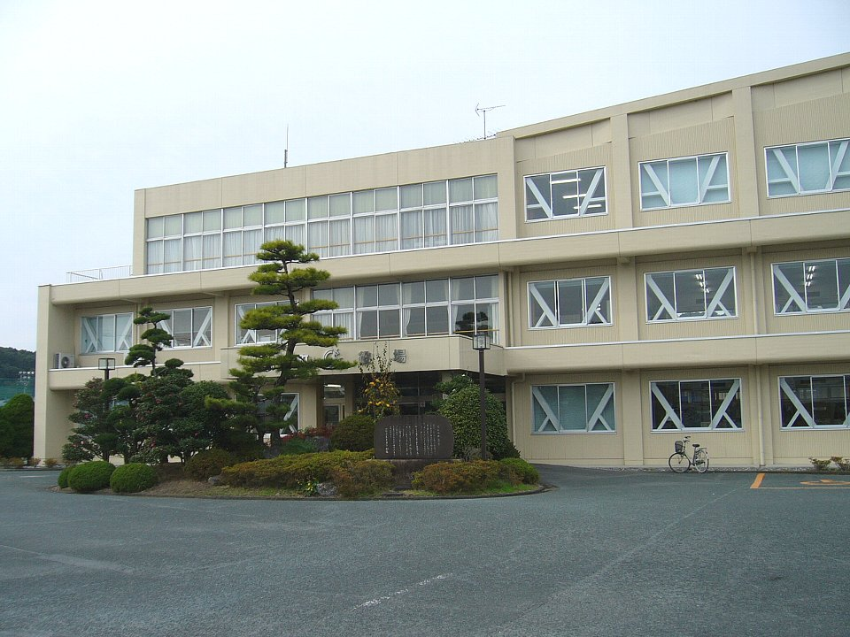 Mori Town Hall, Mori, Shizuoka, Japan (森町 (静岡県))